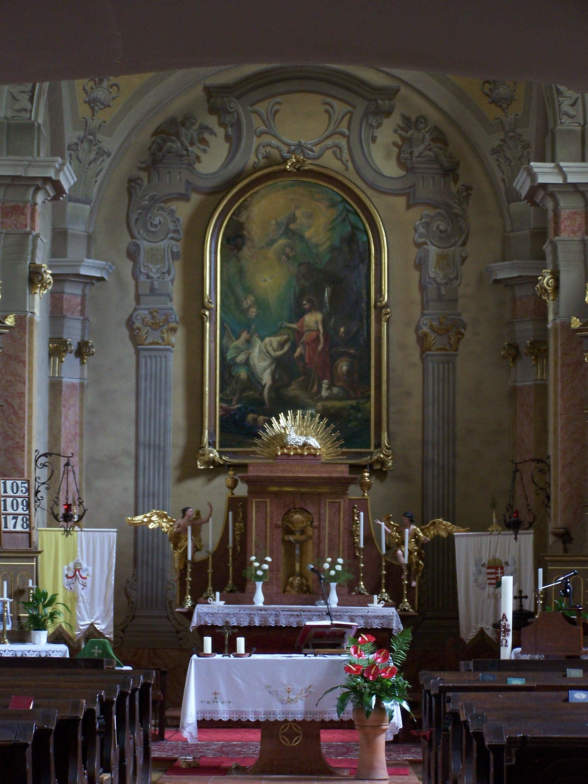 Interior of Saint John the Baptist church in Szár